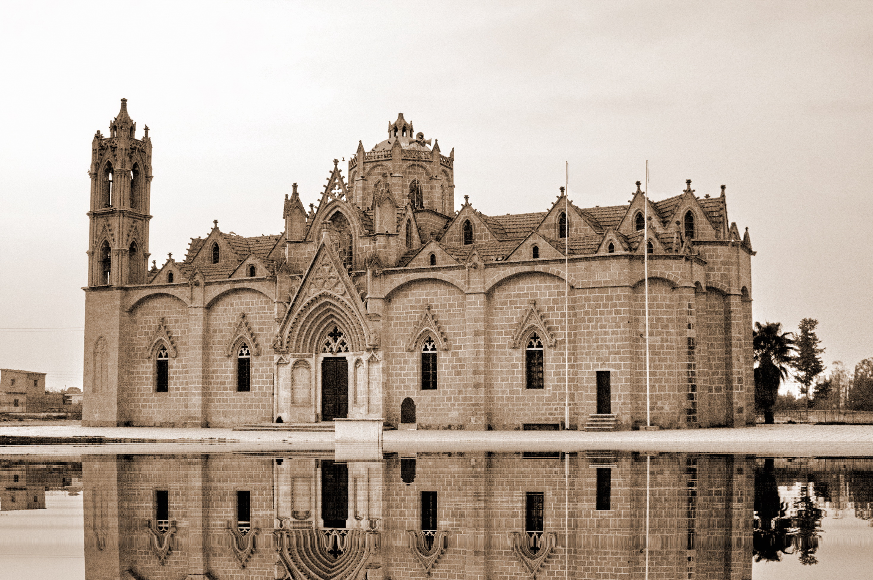 Late 19th century "Panayia's Church", covered in a thick layer of Gothic decoration copied from the great medieval cathedrals of Famagusta and Nicosia. The Church was converted in a mosque and is under the control of the turkish army since the turkish invasion of Cyprus in 1974 and the ethnic cleansing of the North Part of the Republic of Cyprus.